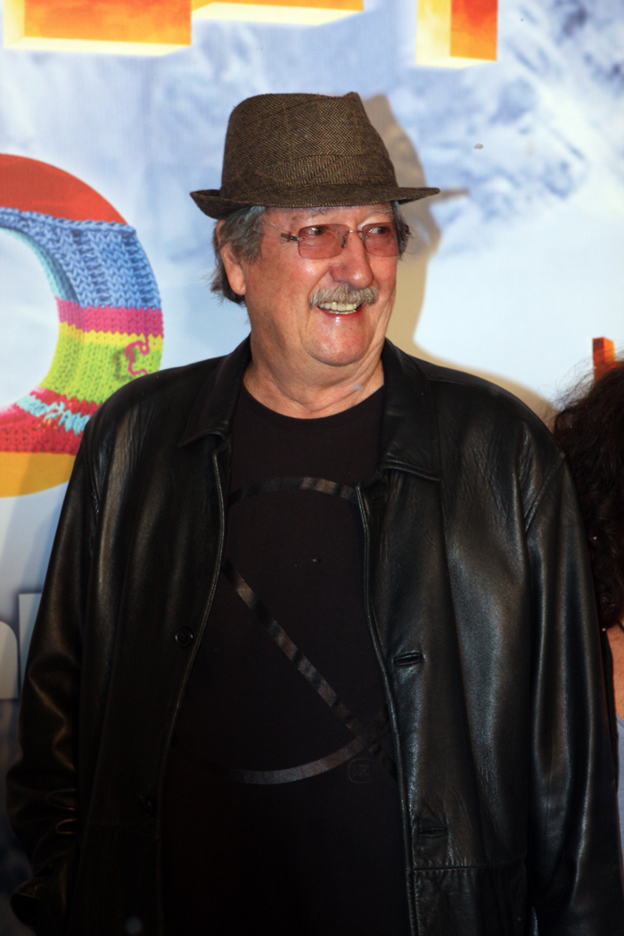 Happy Feet Two Australian Premiere With Robin Williams And George Miller At Entertainment Quarter In Sydney